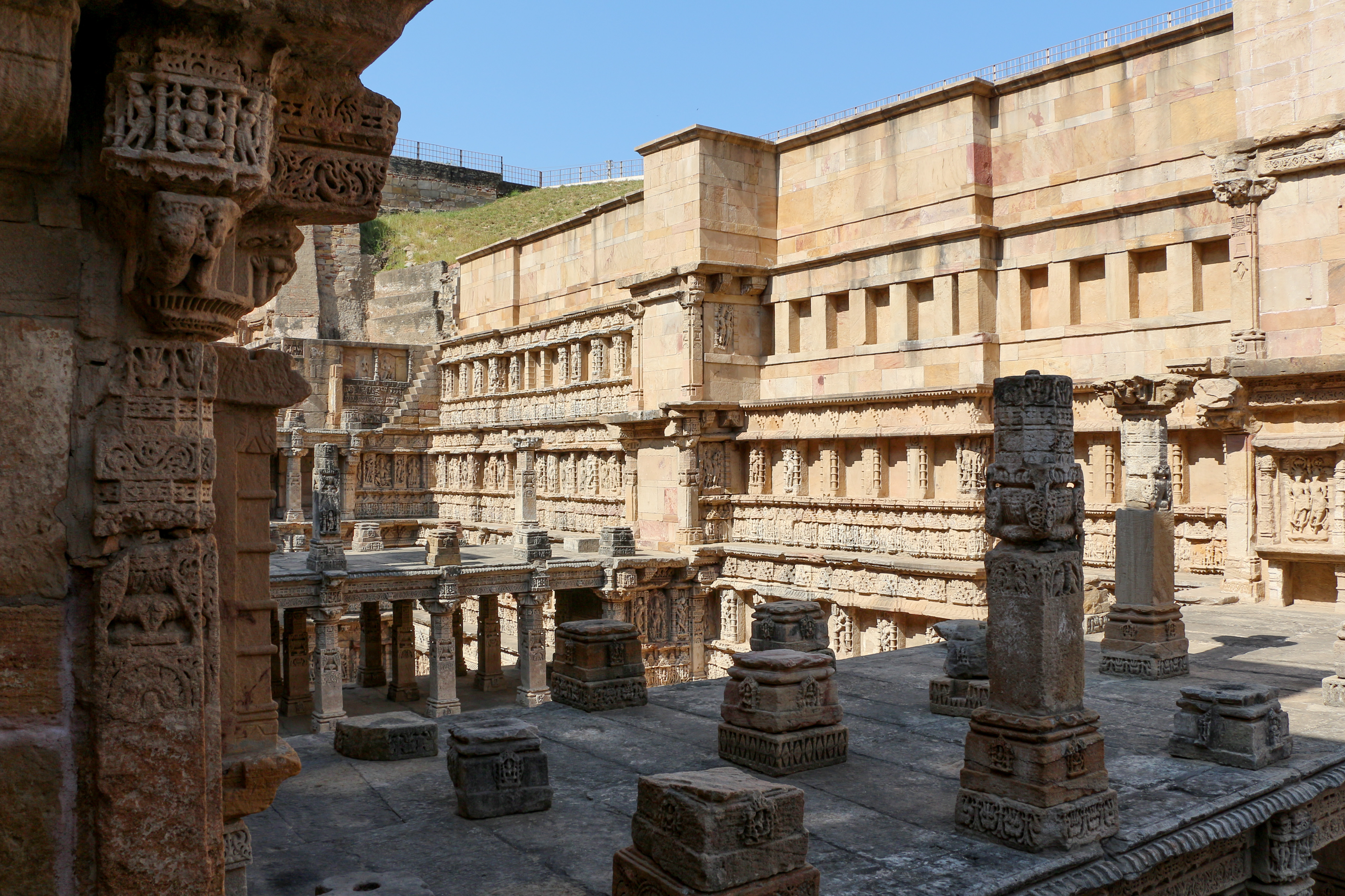 Rani ki vav, Patan, India